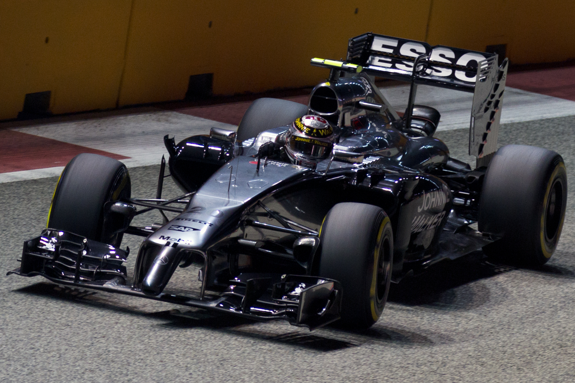 Formula One 2014 Rd.14 Singapore GP: Kevin Magnussen (McLaren)